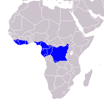 Tockus hartlaubi - Distribution